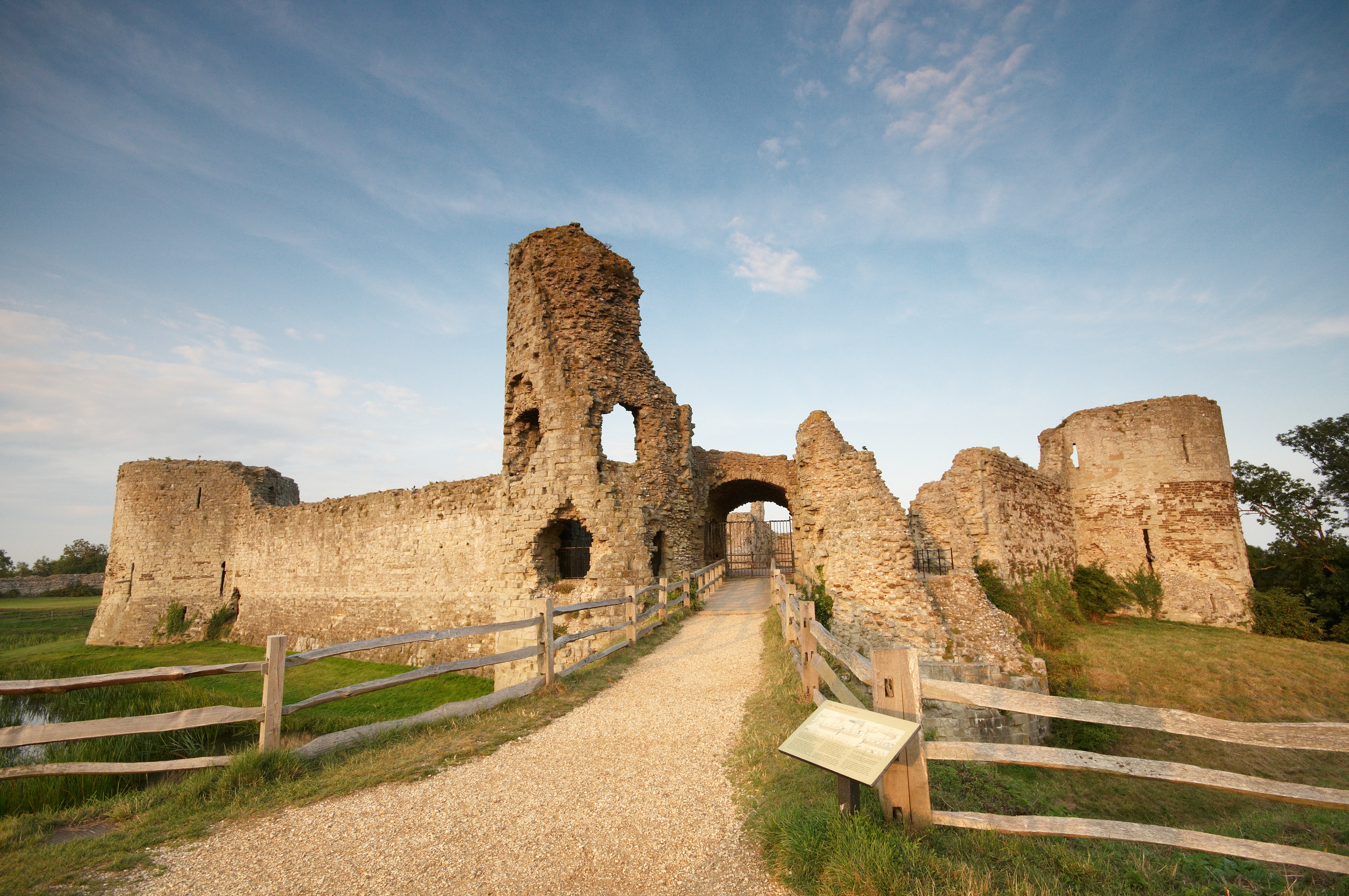 Pevensey Castle ruins, main entrance.